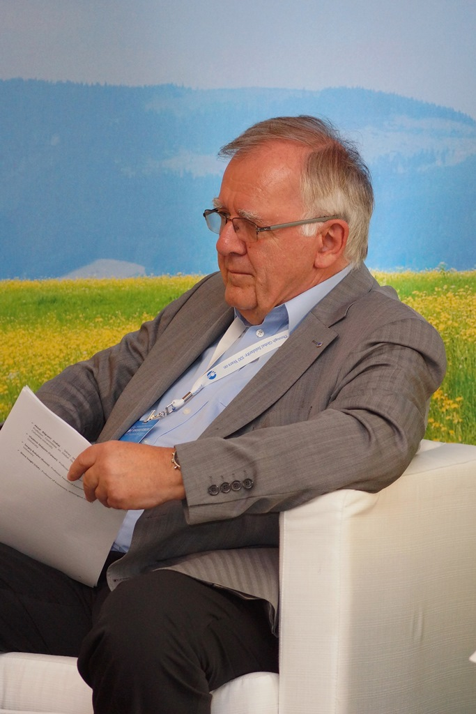 Preventing World War Through Global Solidarity: 100 Years On